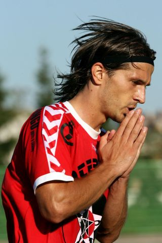 Ivan Jolic picture